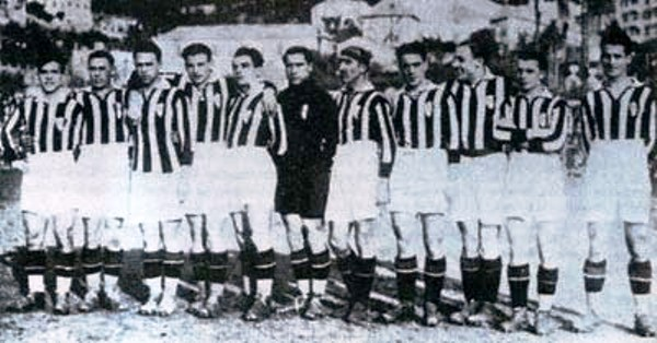 A line-up of F.B.C. Juventus in the 1926–27 season.